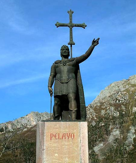 Statue of Don Pelayo in Covadonga (Asturias, Spain), sculpture by Gerardo Zaragoza (1965). Pelayo was a visigothic nobleman. Victor of the battle of Covadonga, he was the initiator of the reconquest in the Iberian peninsula (the Reconquista).